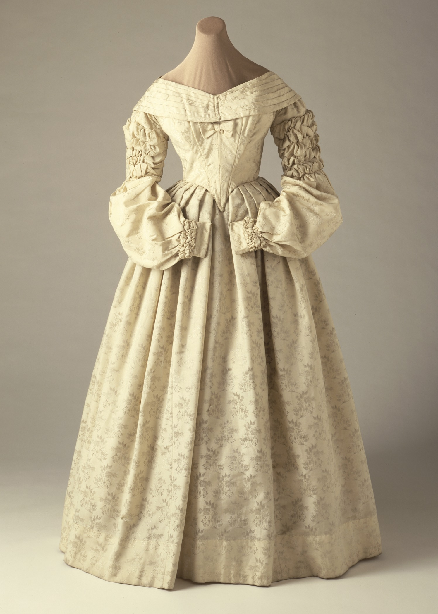 England, 1837-1838 Costumes; principal attire (entire body) Wool brocaded with silk Costume Council Fund (M.64.85.1) Costume and Textiles